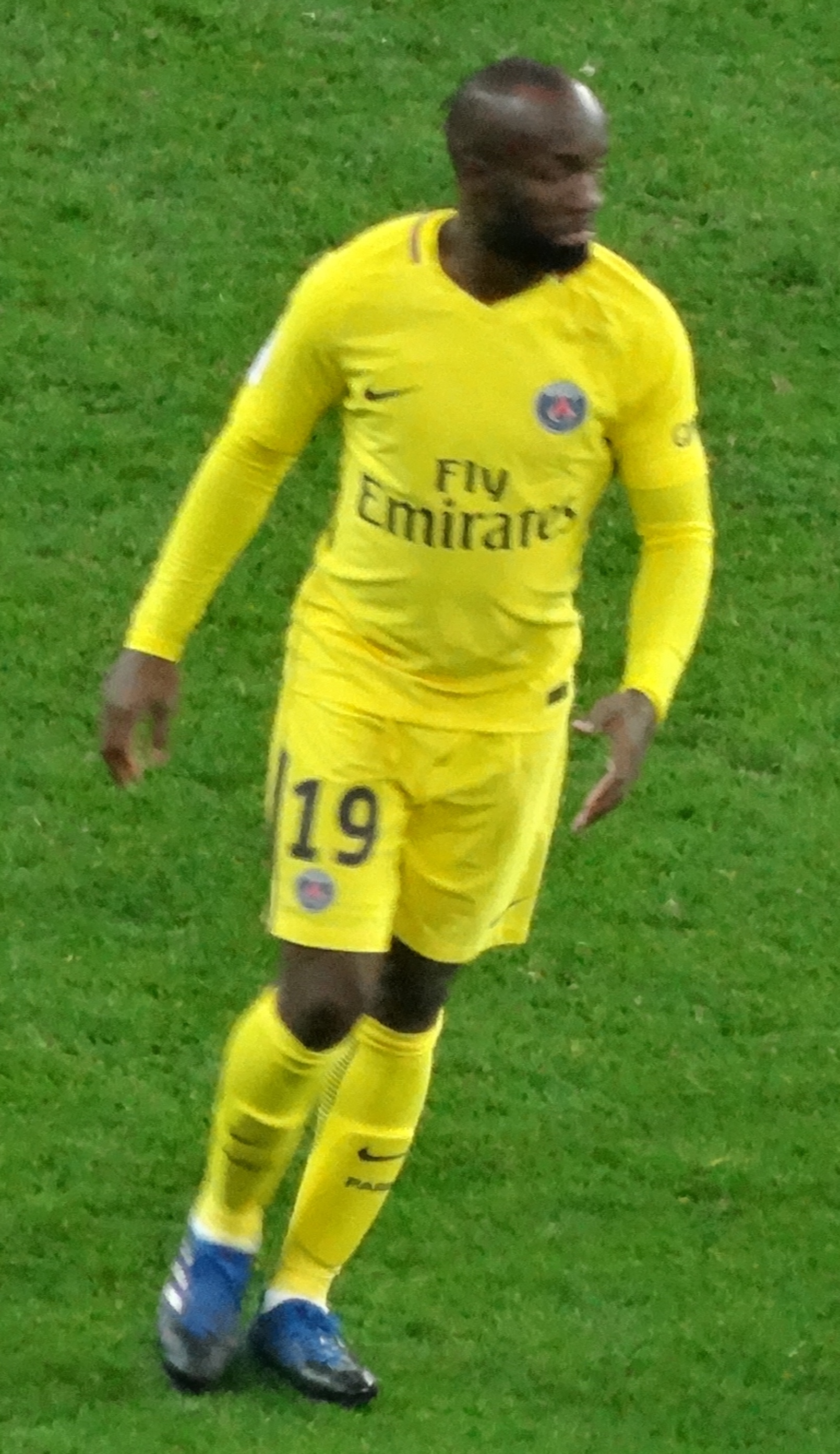 Lassana Diarra PSG